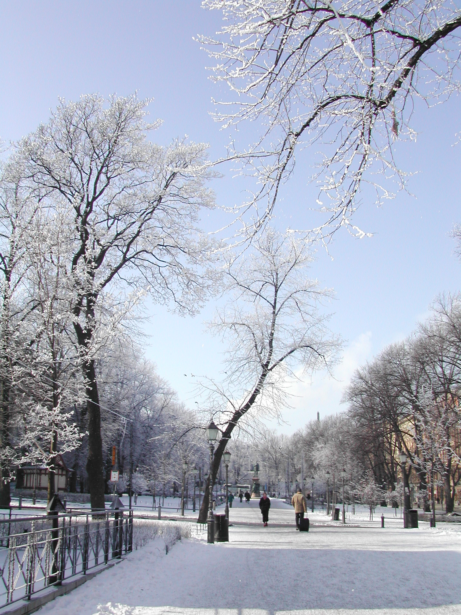 The Esplanadi Park in Helsinki, Finland